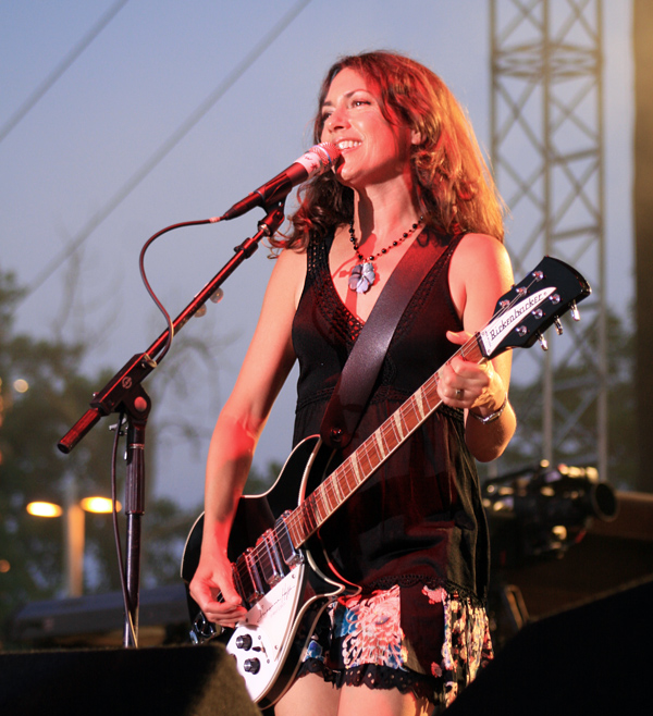 Susanna Hoffs singing with The Bangles at the 2006 Common Ground Festival in Lansing, Michigan